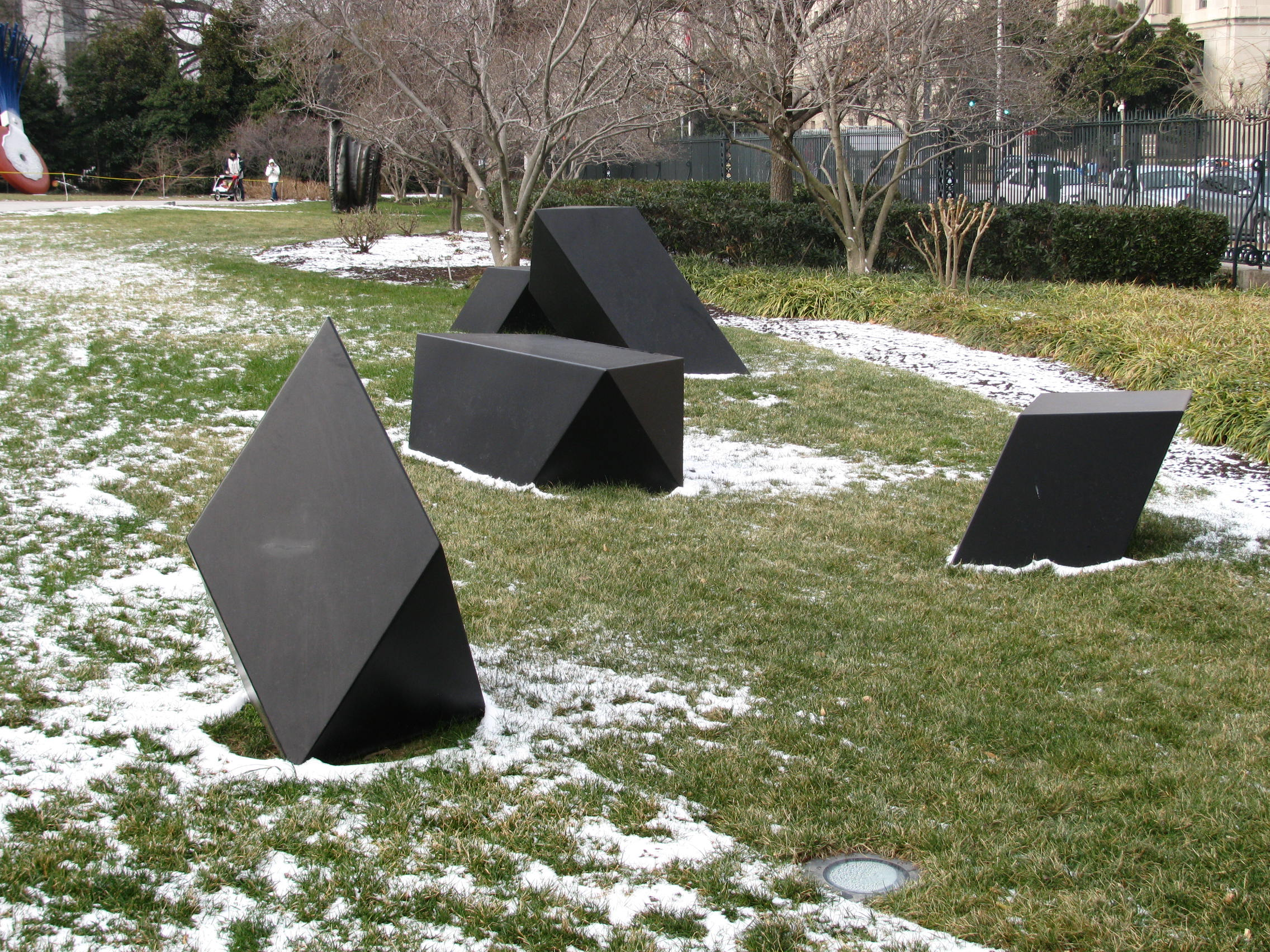 "Wandering Rocks", Tony Smith National Gallery of Art Sculpture Garden